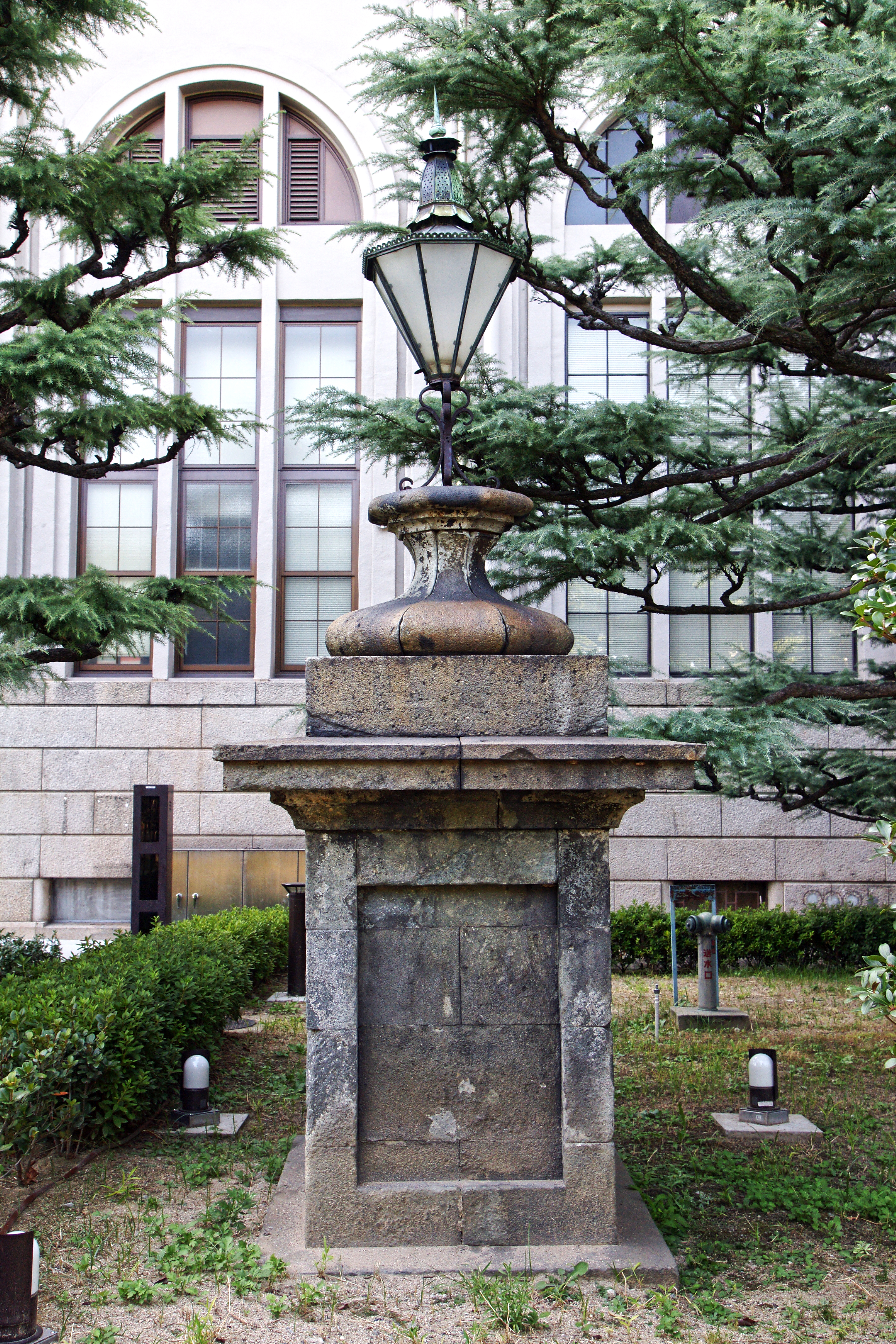 Japan Mint head office in Osaka, Osaka prefecture, Japan.